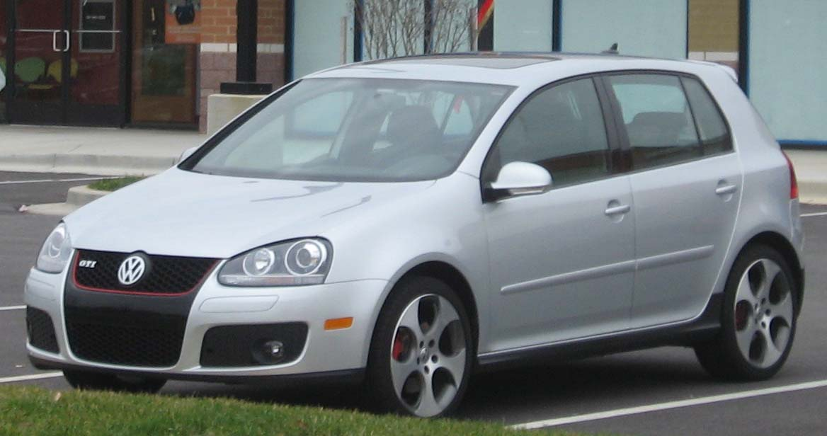 2006-2008 Volkswagen GTI photographed in Waldorf, Maryland, USA.